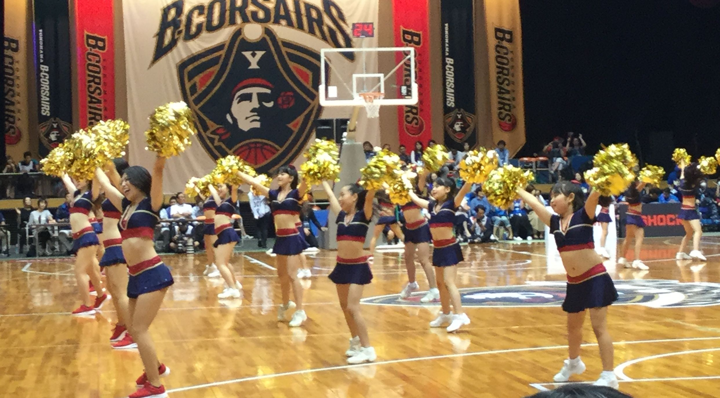 2017/9/30 YOKOHAMA BCOR GAME